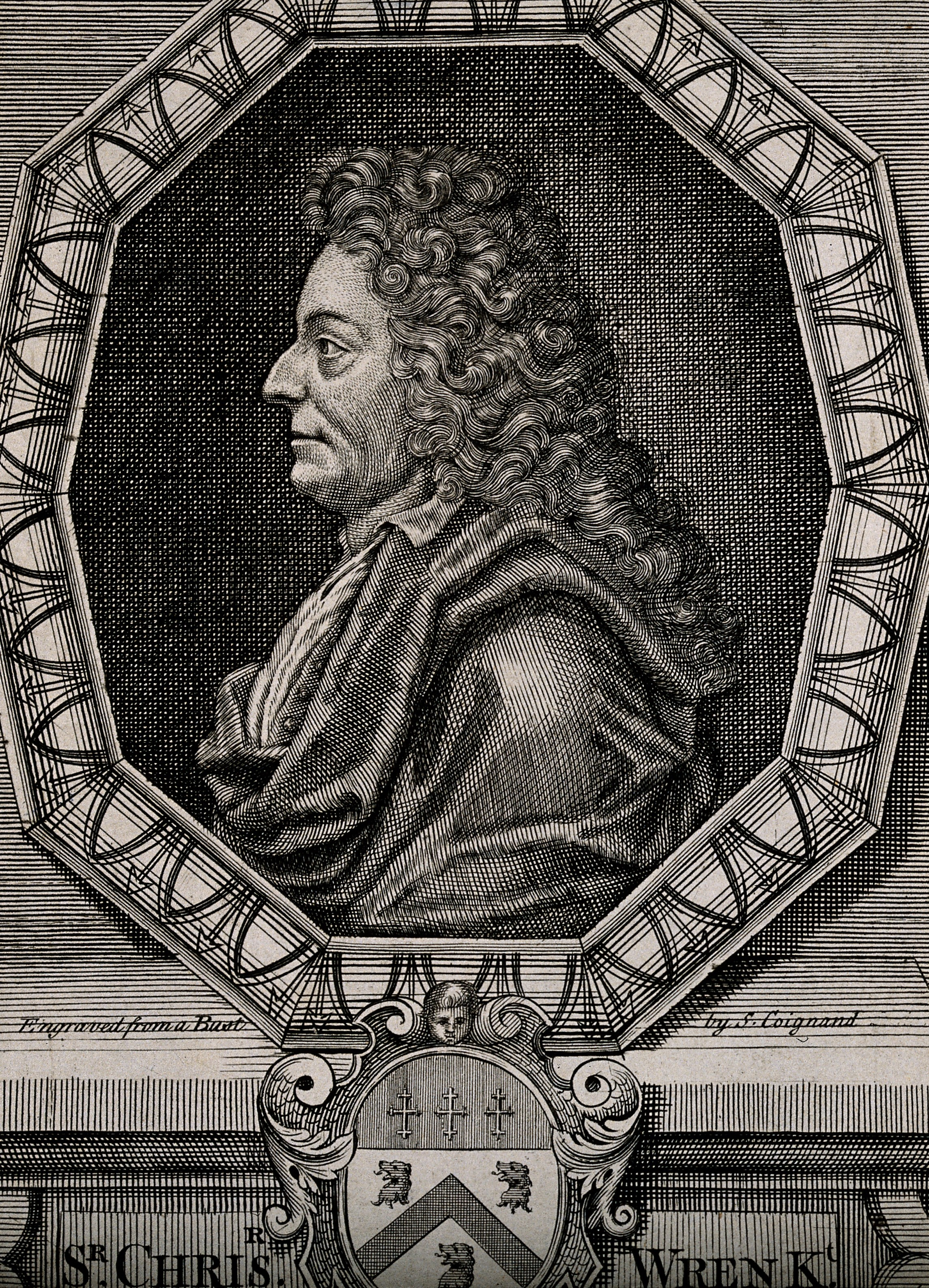 Sir Christopher Wren. Line engraving by S. Coignard, 1750, after M. Rysbrack. Iconographic Collections Keywords: portrait prints; John Michael Rysbrack; engravings; S. Coignard; Christopher Wren